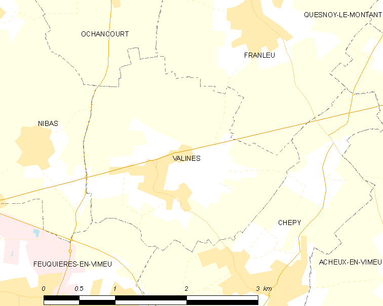 Map of French municipality Valines